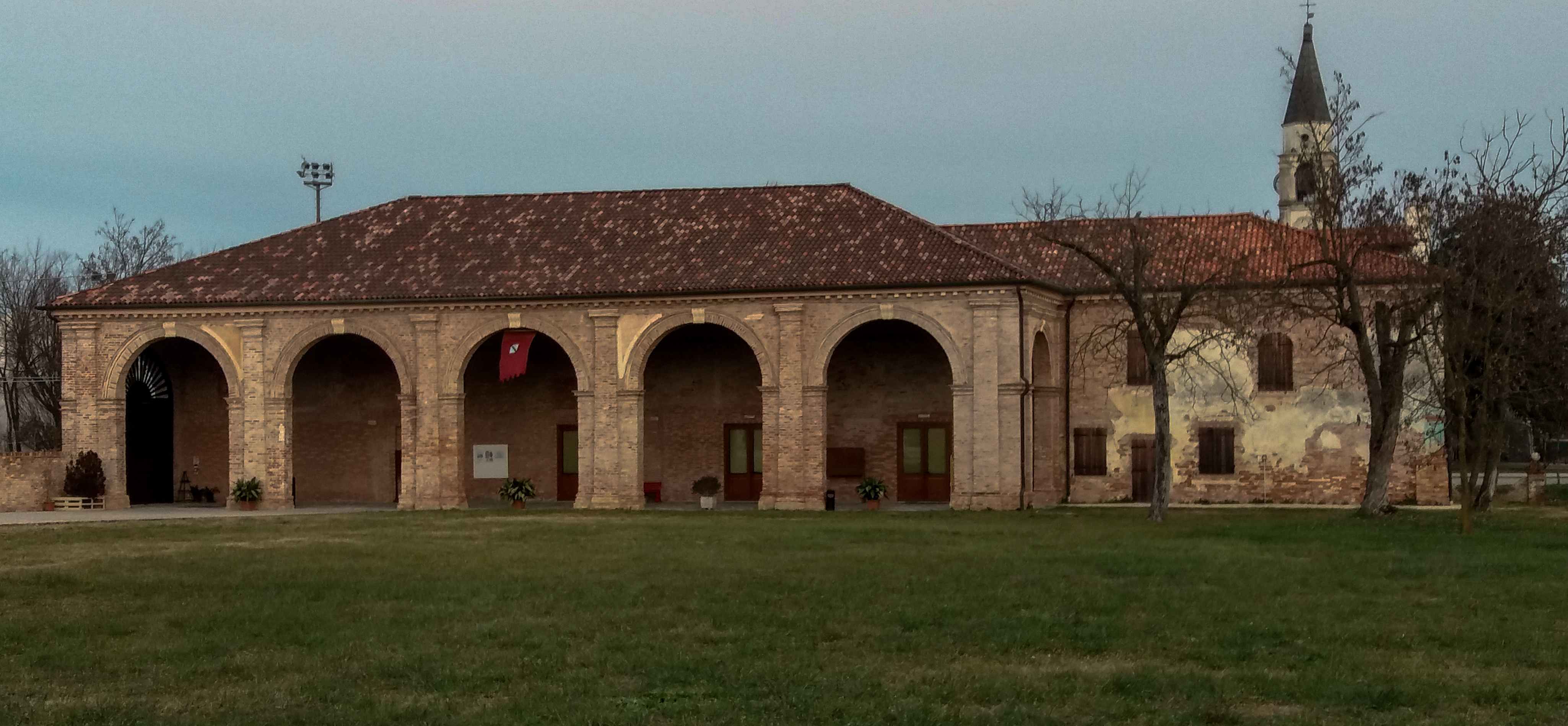 scuderia Villa Farsetti